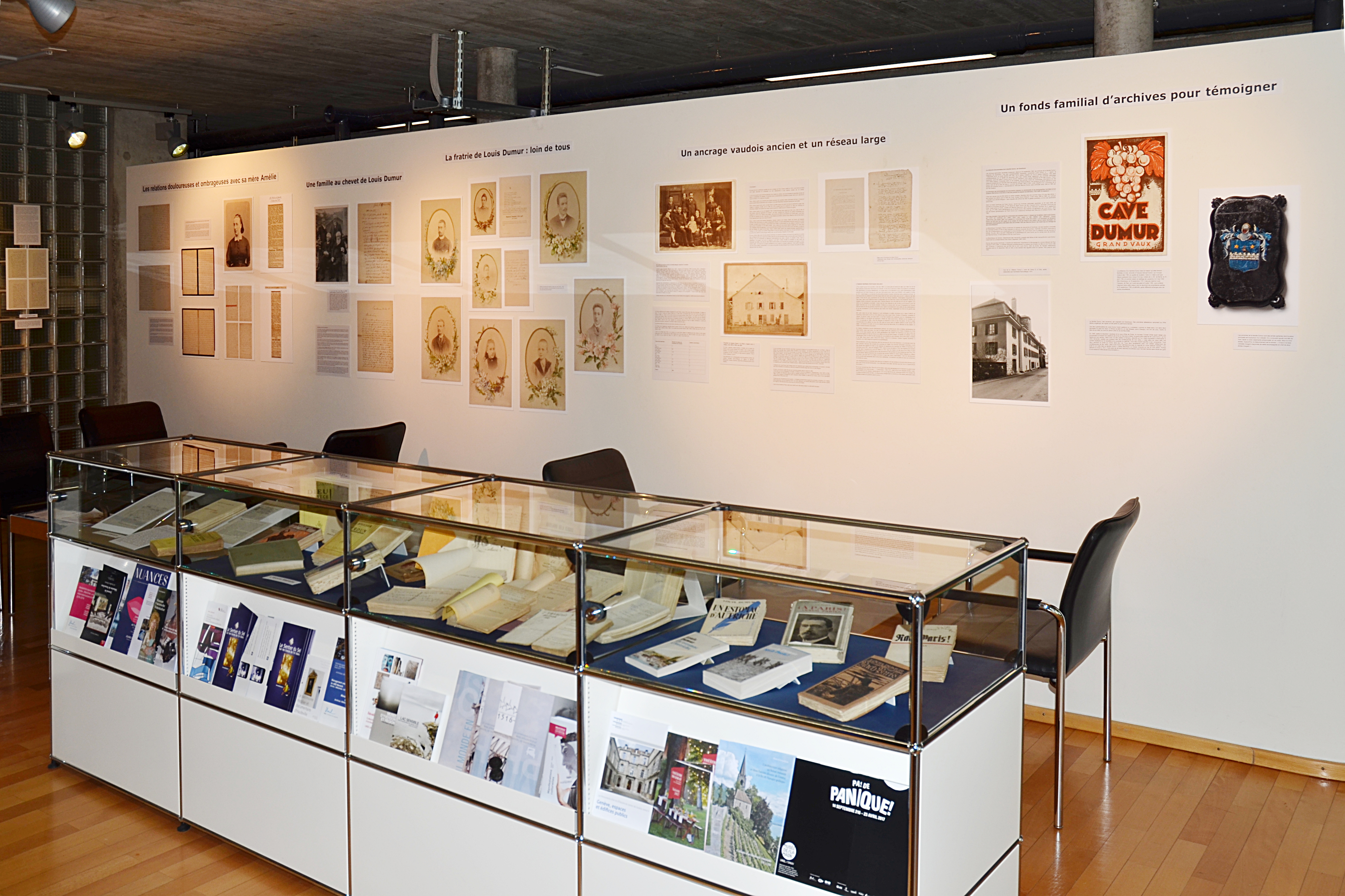 Archives of the State of Vaud, Lausanne, Switzerland, exhibition Louis Dumur, April 2017.